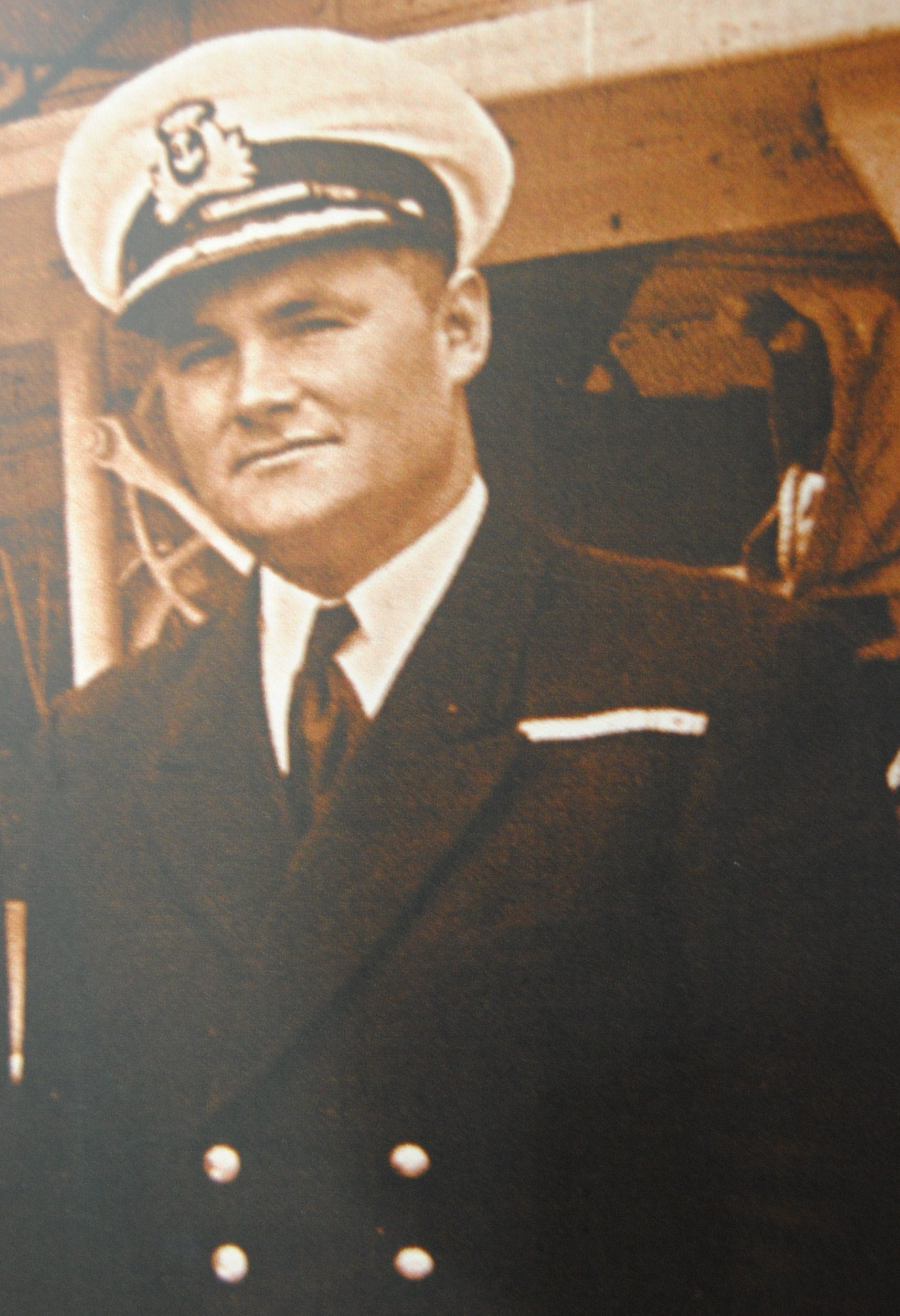 taken myself with my camera from bigger affiche in state museum